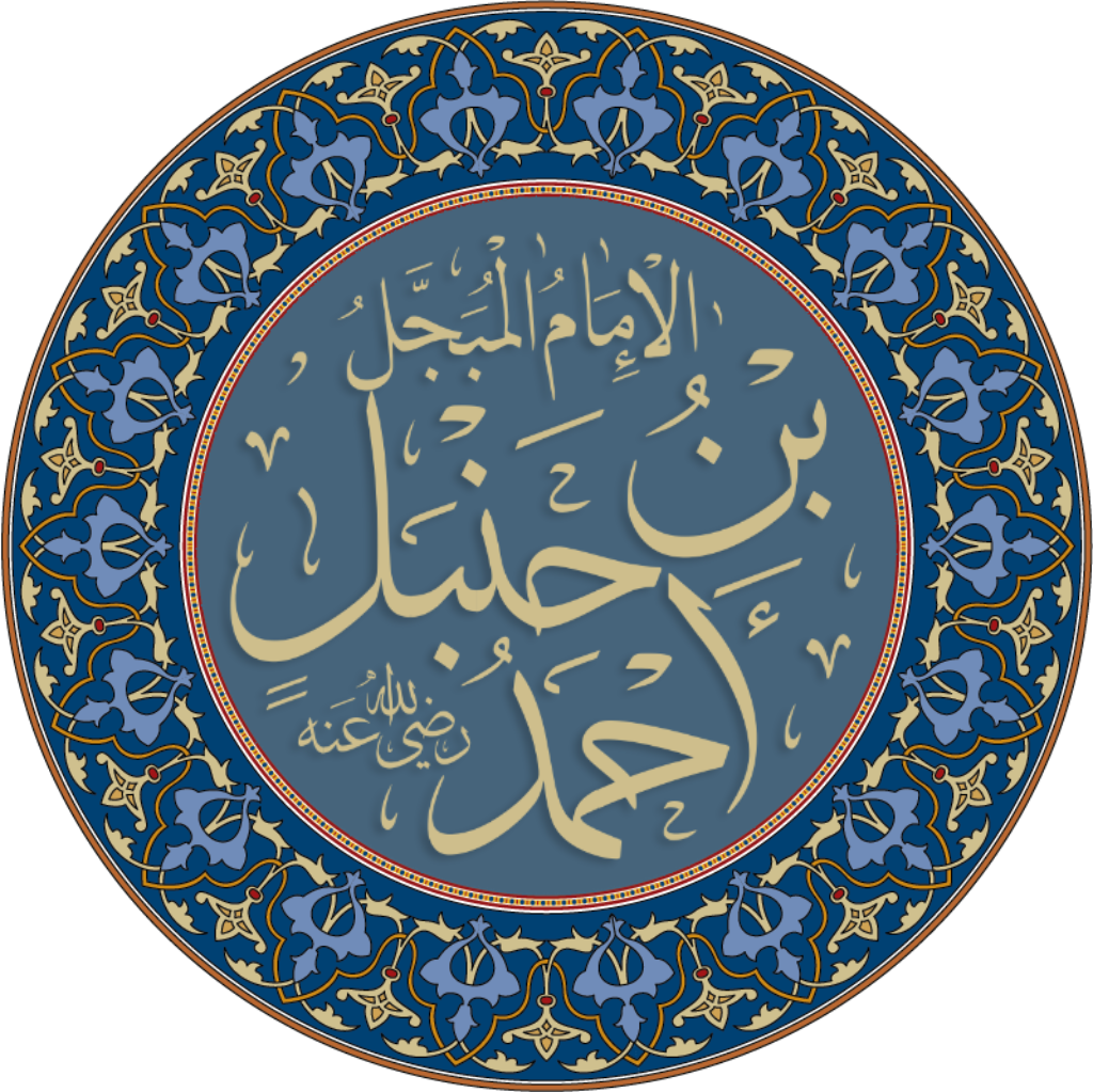 Ahmad bin Hanbal Name